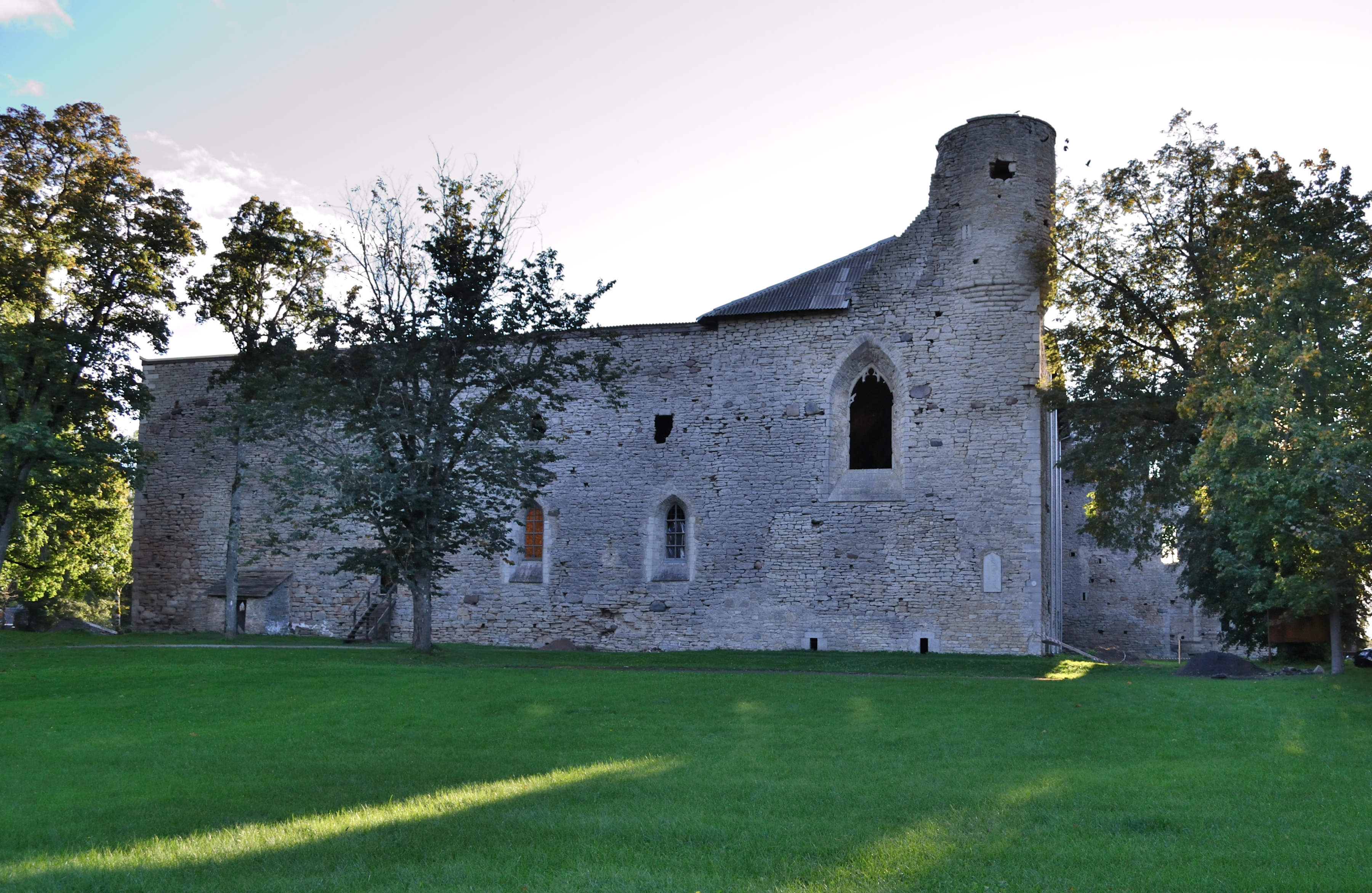 Padise Abbey ruins, 13.-16. century